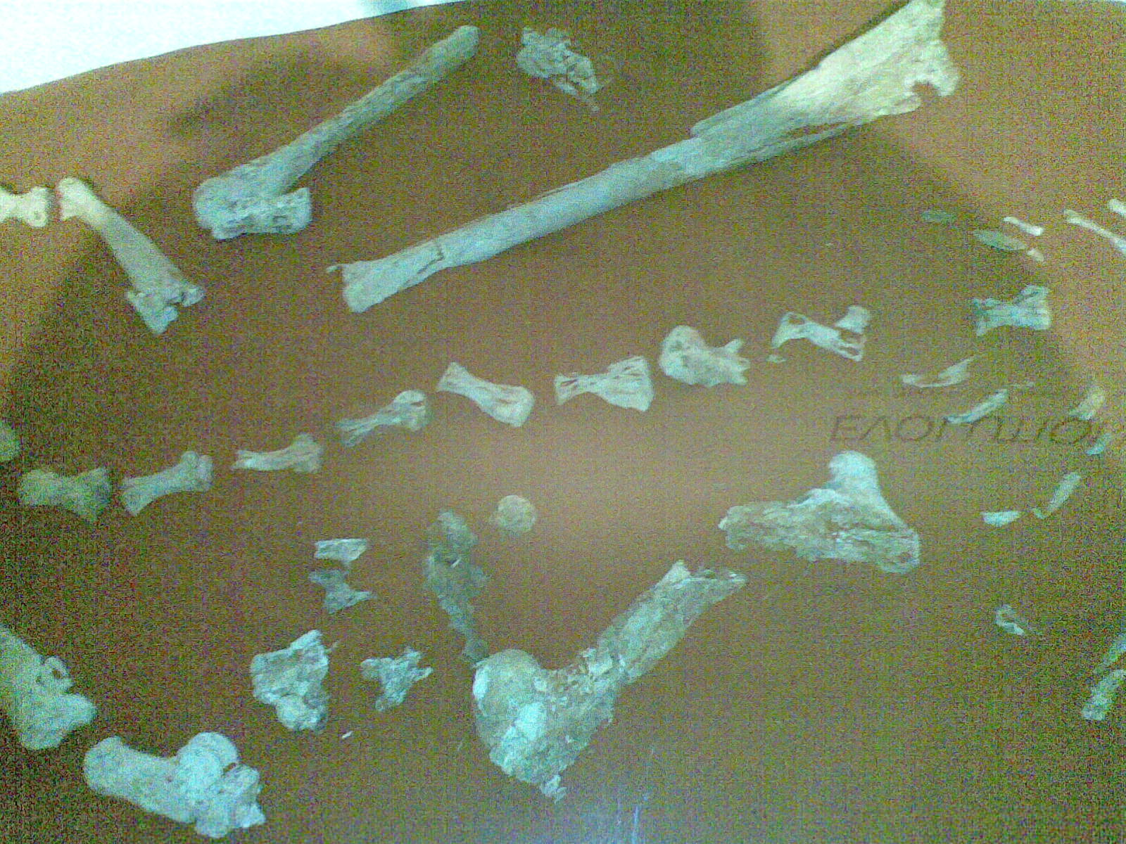 Dissarticulated skeleton osf a Sthenurus sp. Museum of Victoria.